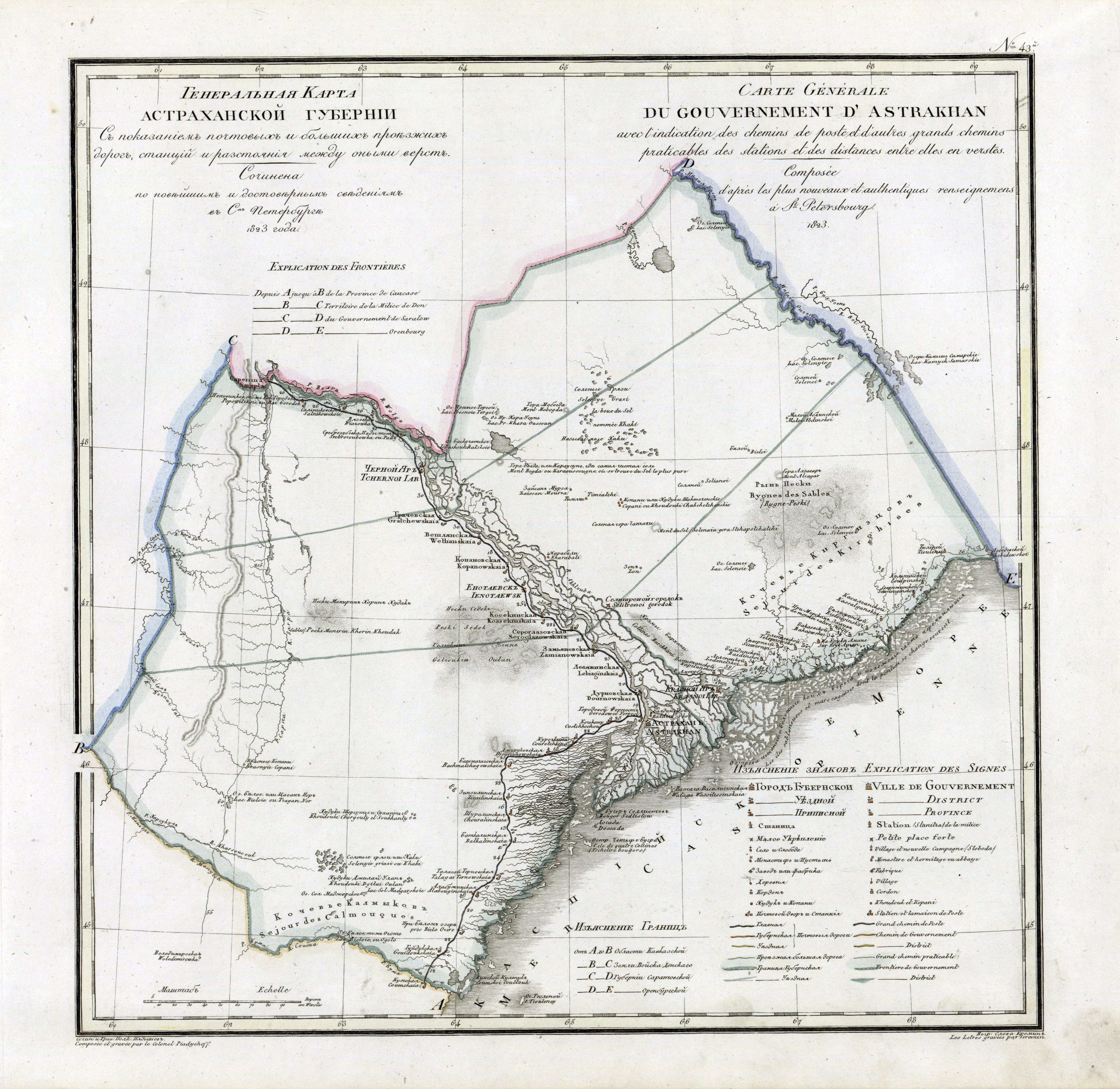 Astrakhan Governorate Map from Geographic atlas of the Russian Empire (1821